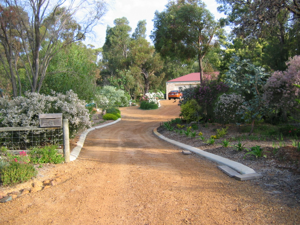 Rural residential property in Leschenault, north of Bunbury, Western Australia.